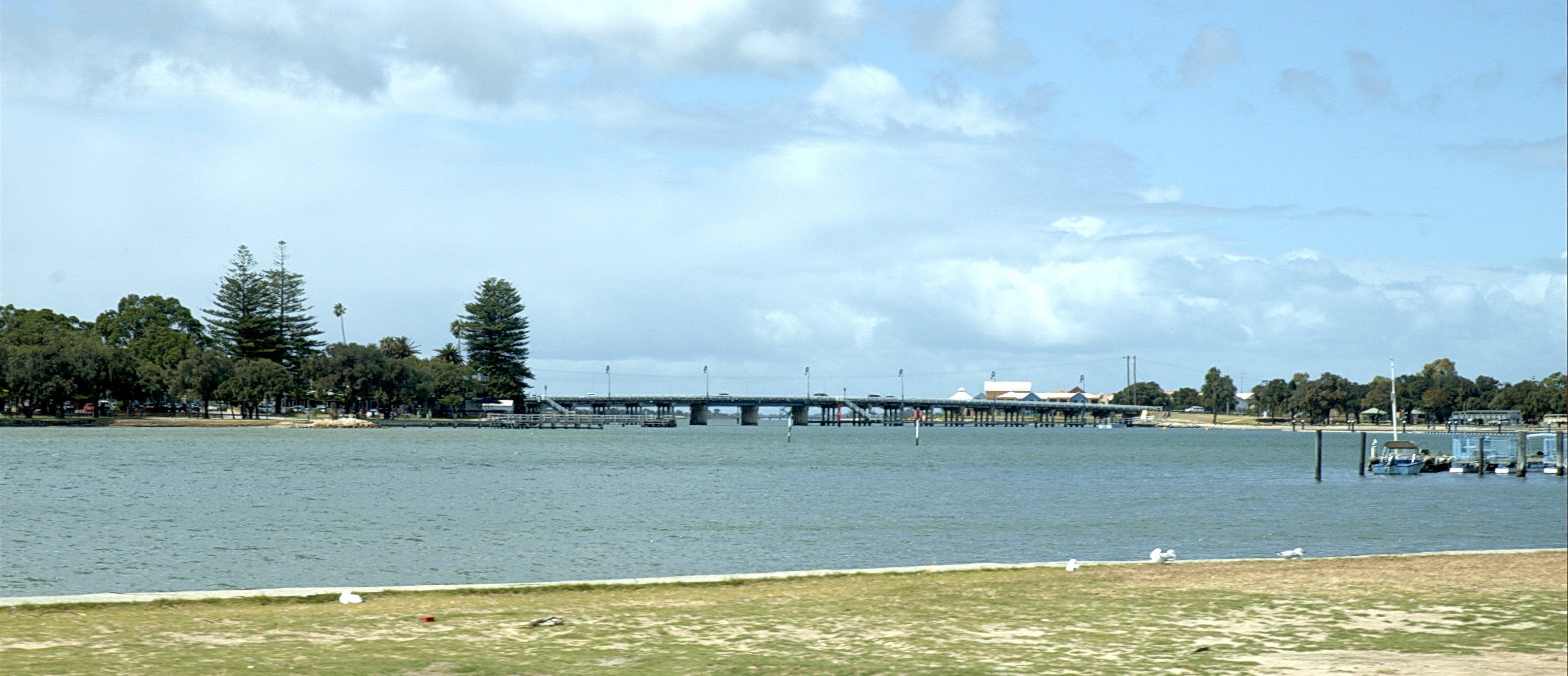 Mandurah, Western Australia - Peel Inlet and old Traffic Bridge.